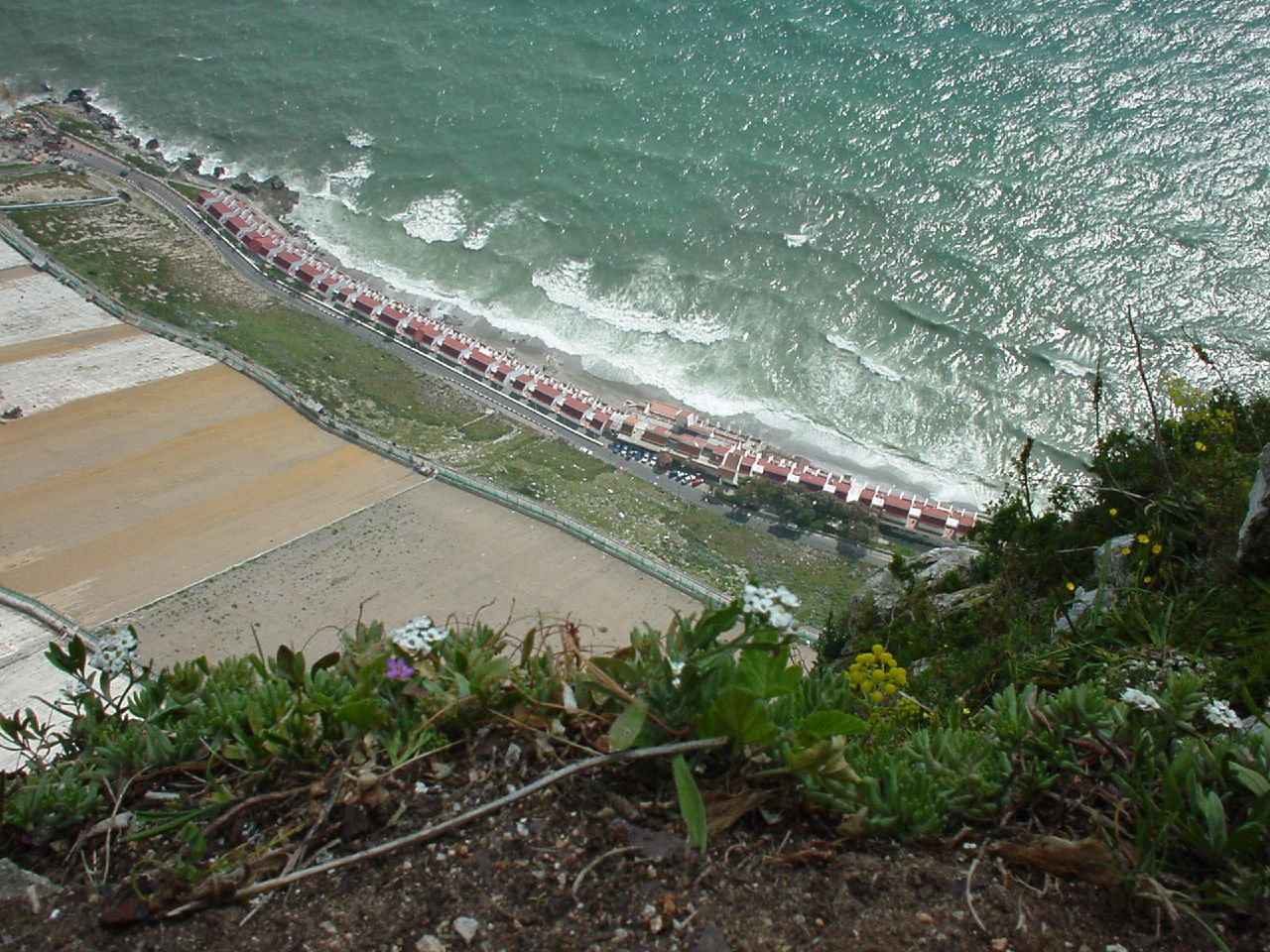 View of Sandy Bay from the Rock of Gibraltar.